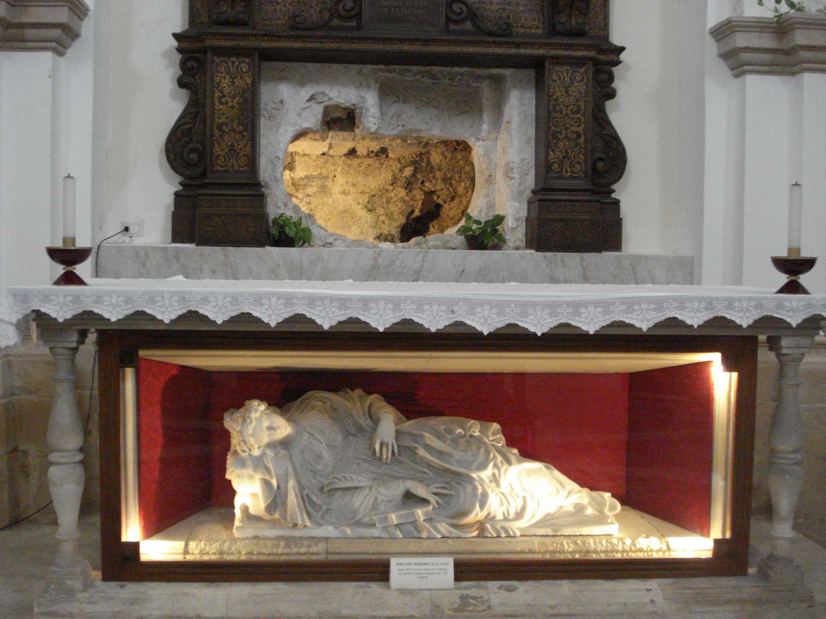 Hole in the wall - place where St Lucy's body had rested in peace before 1040. In this year George Maniaces took her body and sent it to Bysantium